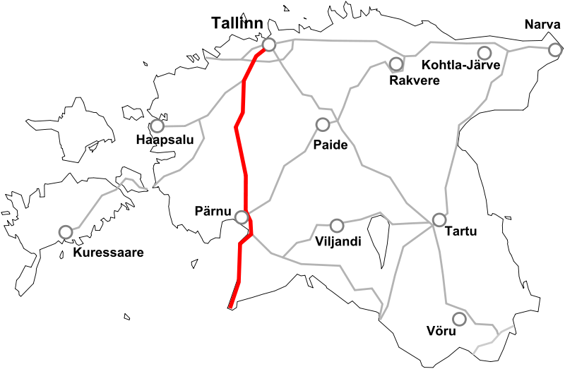 Map of Estonian national road 4, white background. Bigger cities marked.